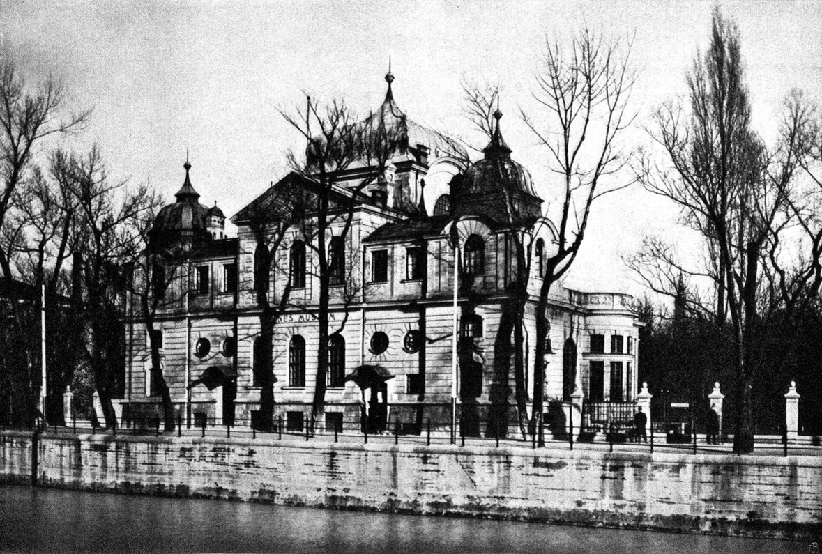 Alpines Museum München